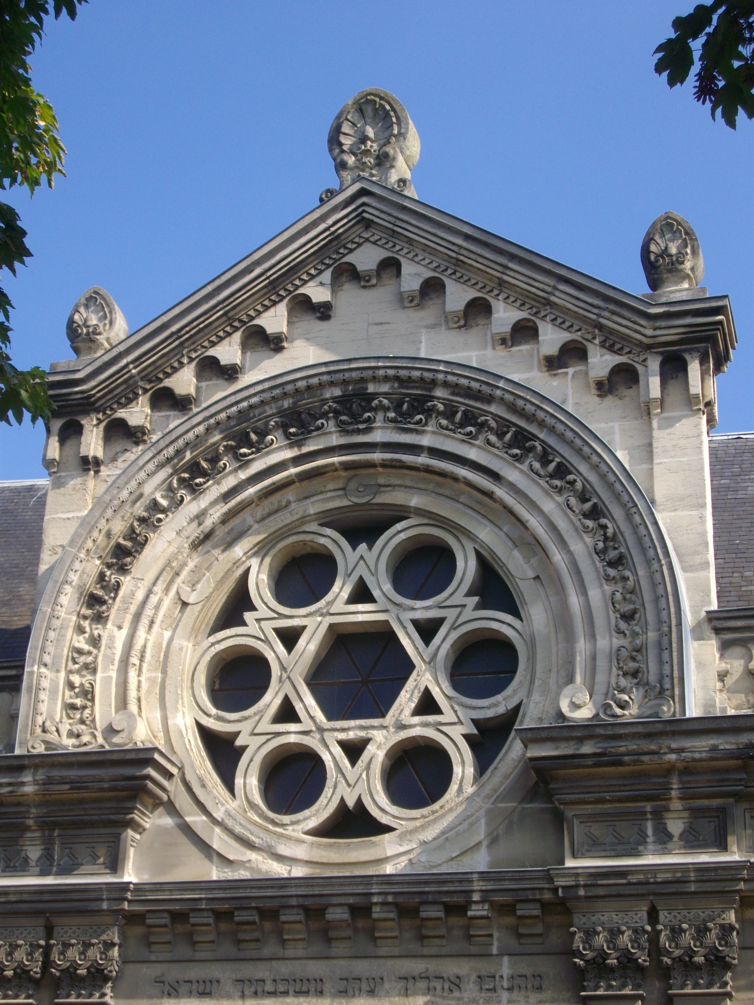 Synagogue of Épernay (Marne, France) : detail of the star of David